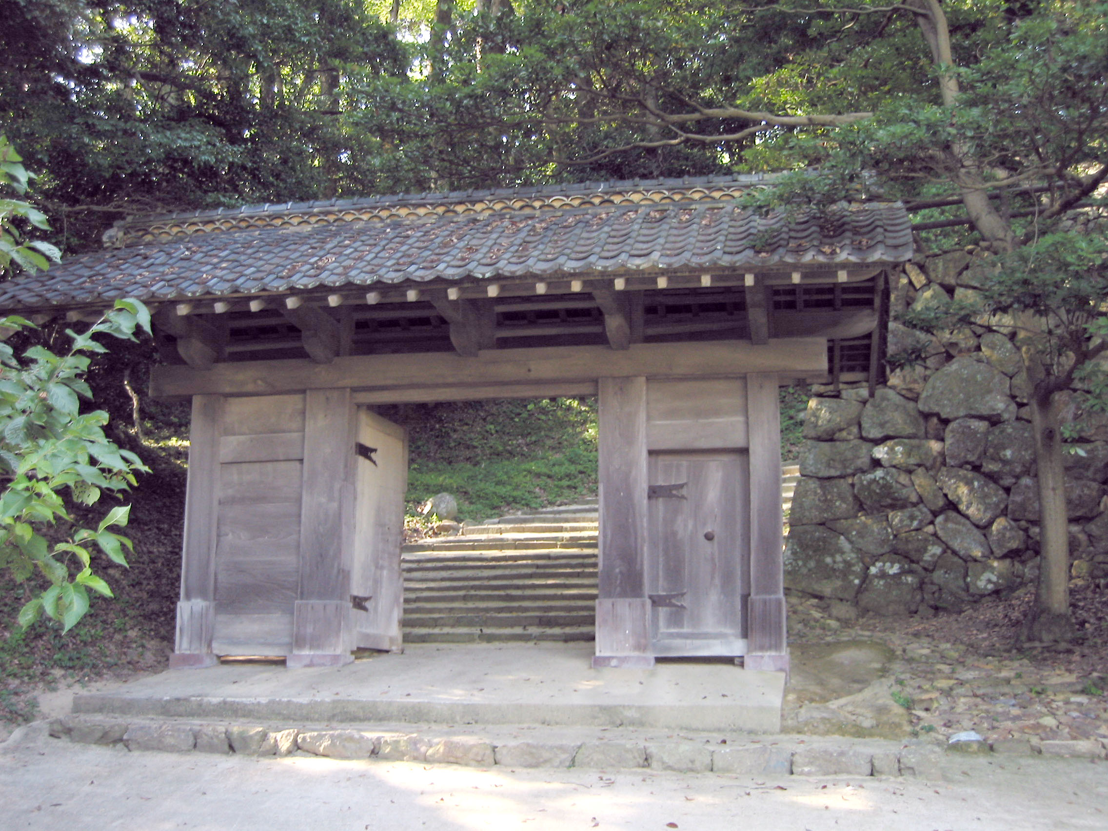 photo of Hamada Castle Gate of the castle